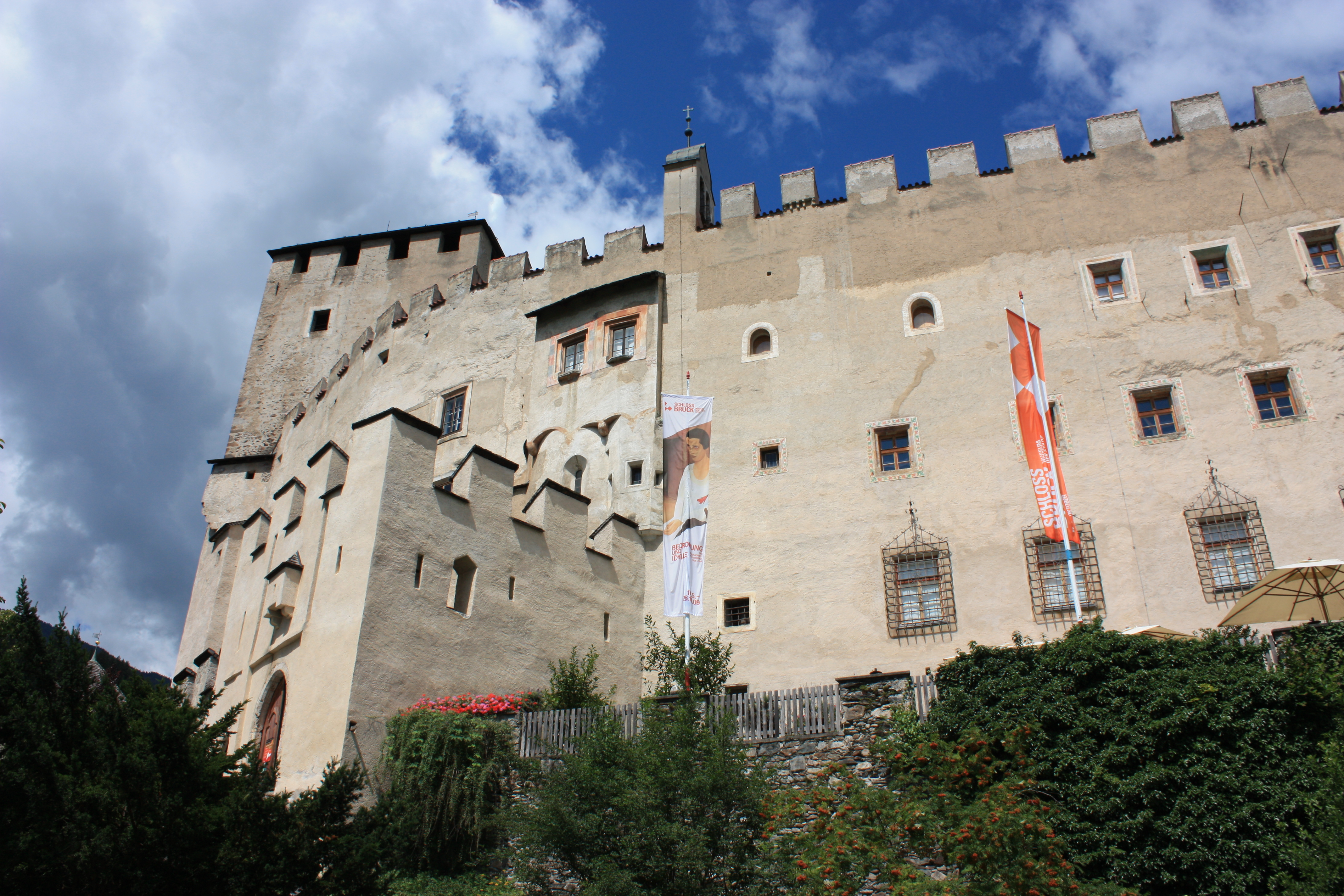 Bruck castle Locality:Schlossberg Community:Lienz